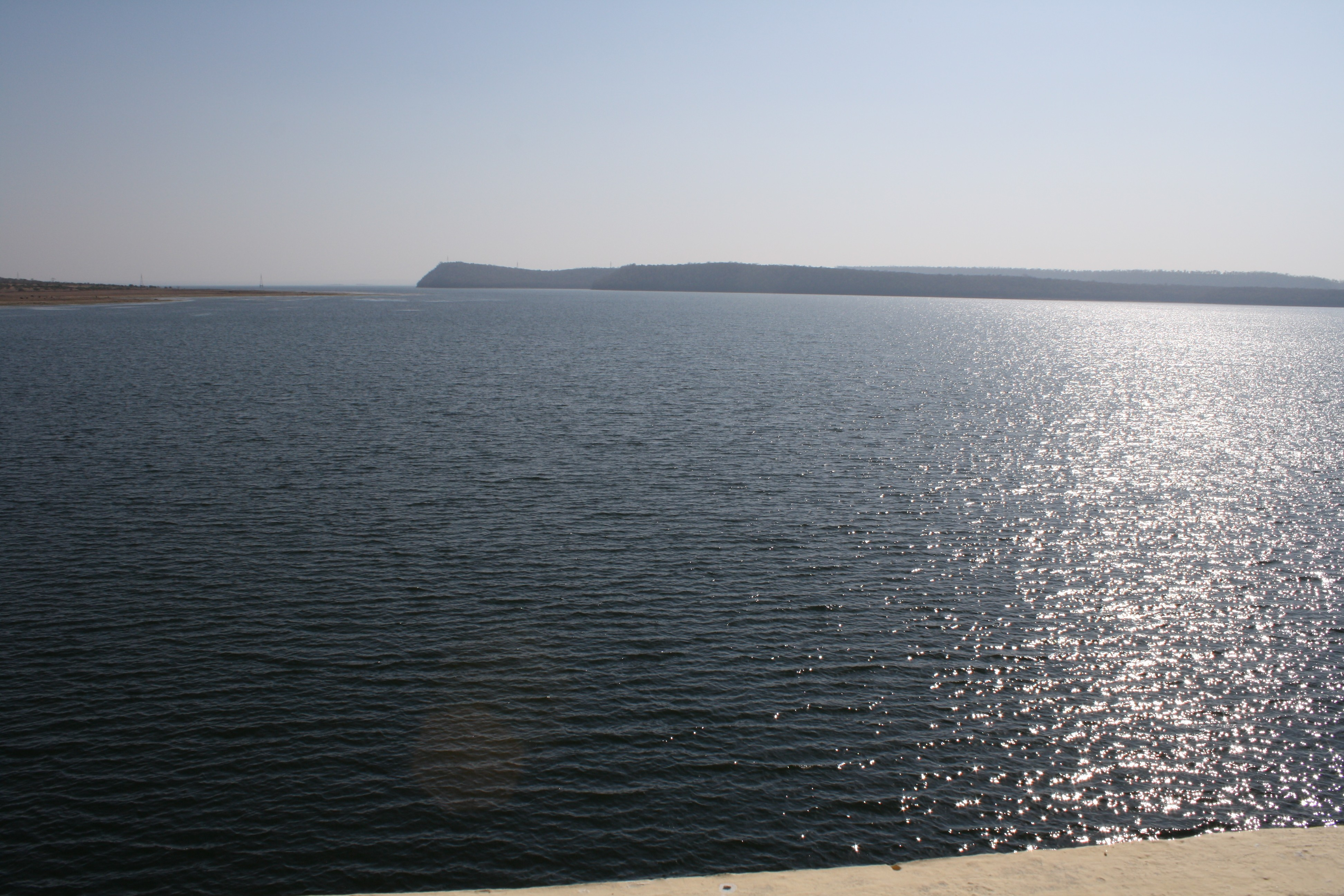 Ranapratp Sagar Reservoir, Rajasthan